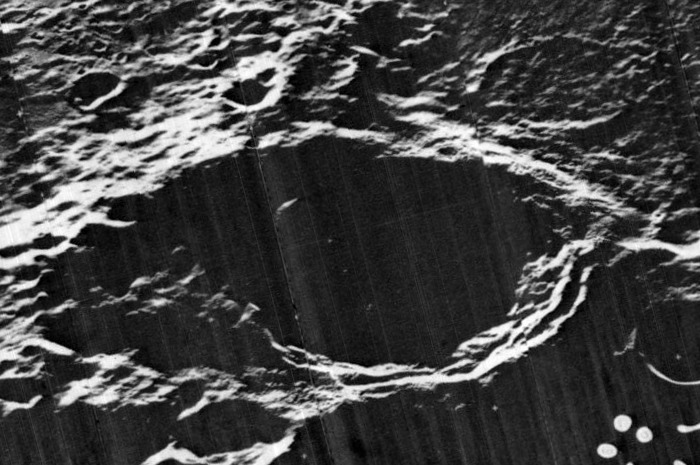 Oblique view of Finsen, on the far side of the moon, facing west. Dots in lower right are blemishes on original.